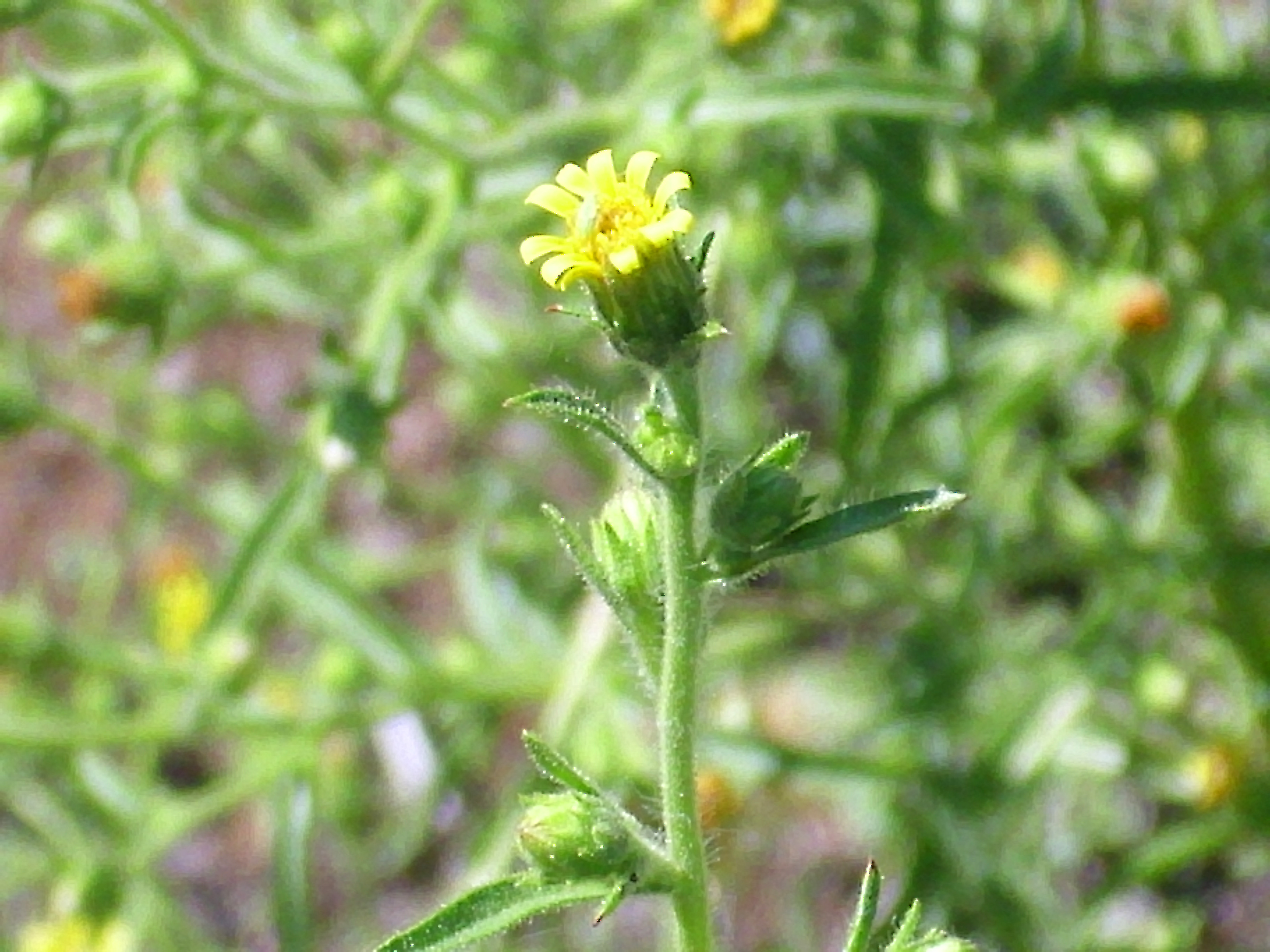 Dittrichia graveolens inflorescence close up, Dehesa Boyal de Puertollano, Spain